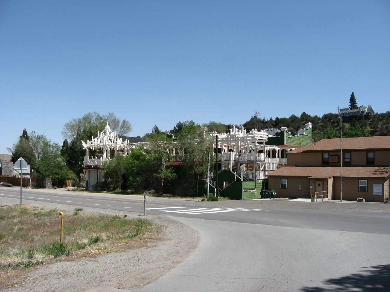 Verdi is a census-designated place (CDP) in Washoe County, Nevada, United States on the western side of the Reno–Sparks Metropolitan Statistical Area, near Interstate 80. The CDP of Verdi, California lies immediately adjacent across the state line. Both are in the shadow of California's Verdi Range. In 2010, the population was 1,415. The town of Verdi was named after Giuseppe Verdi by Charles Crocker, founder of the Central Pacific Railroad, when he pulled a slip of paper from a hat and read the name of the Italian opera composer in 1868.